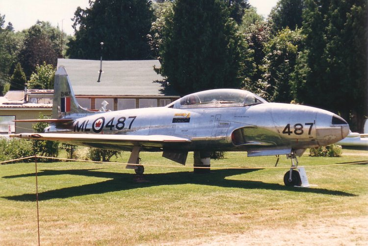 Canadair T-33 Silver Star at the Canadian Museum of Flight in South Surrey, BC on 23 July 1988.